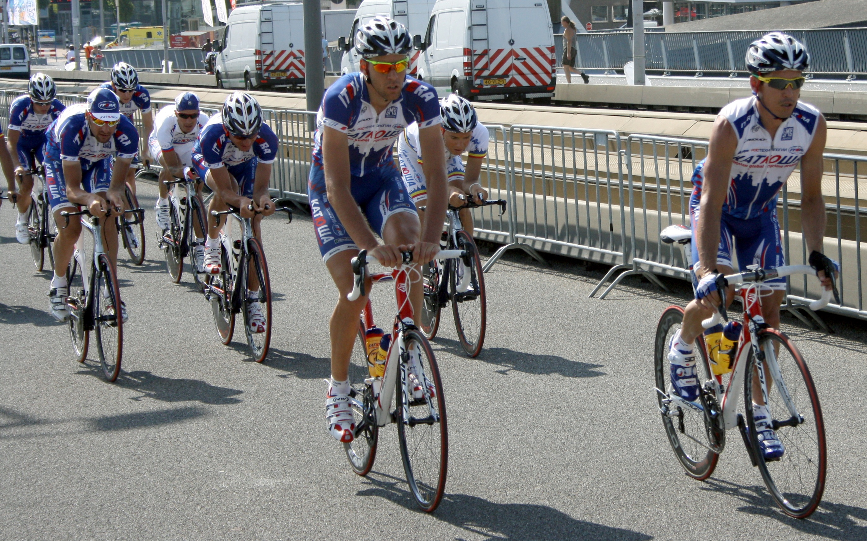 Katusha training for the prologue of the 2010 Tour de France in Rotterdam